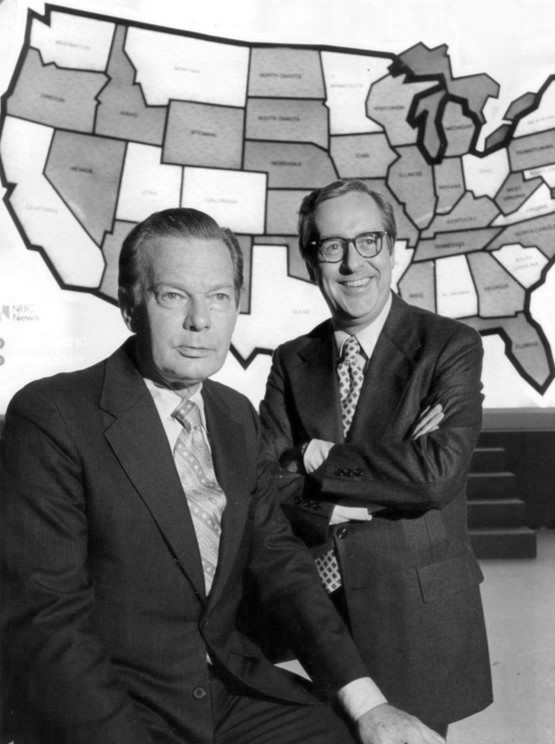 Journalists David Brinkley and John Chancellor on the set for NBC's 1976 presidental election coverage.